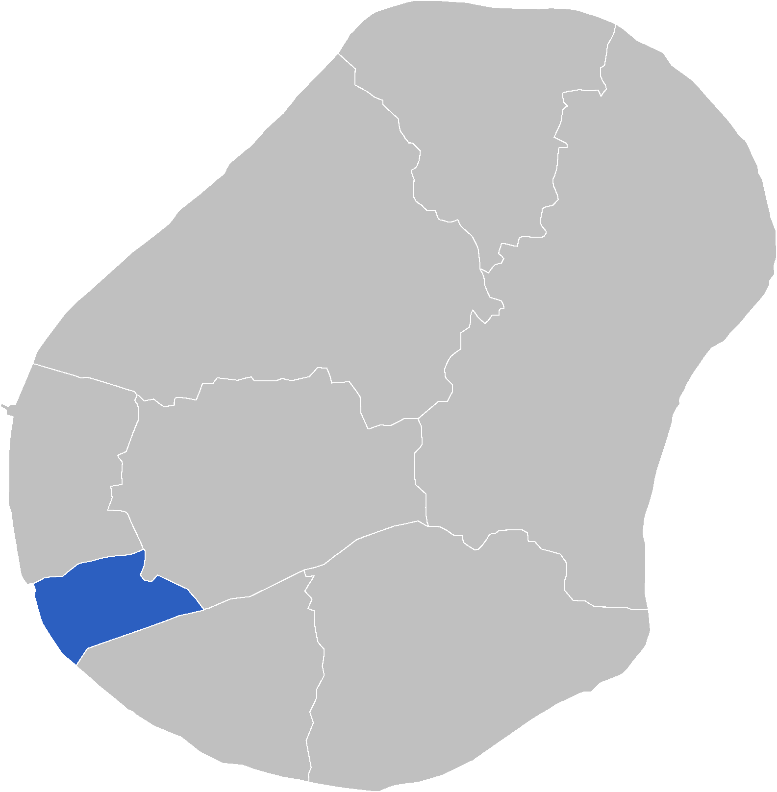 Location map of Boe constituency, Nauru